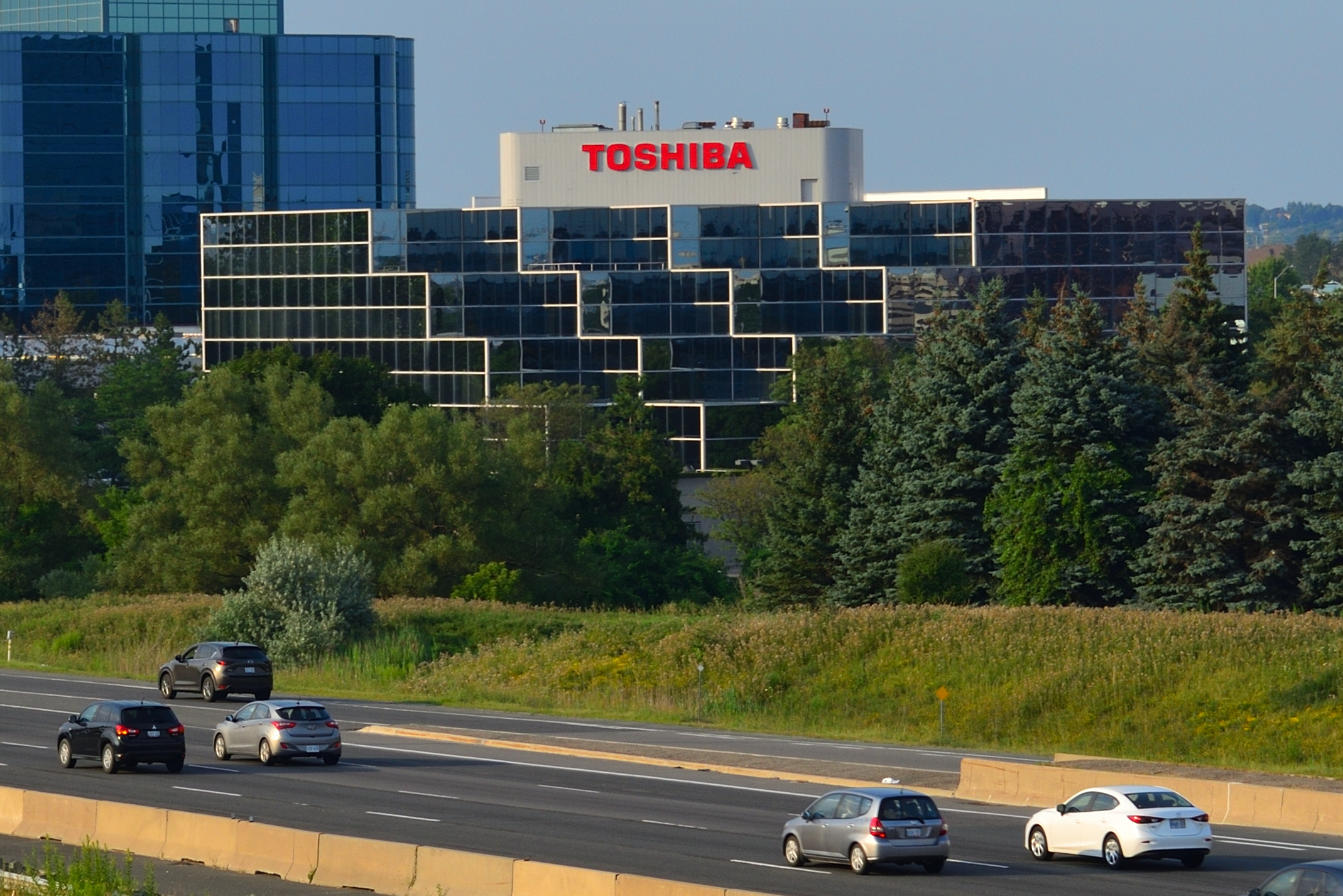 Toshiba of Canada Limited. Address: 75 Tiverton Court, Markham, ON L3R 4M8